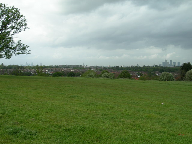 Blythe Hill Fields, Forest Hill Looking towards Canary Wharf (the towers on the right) and the City of London (the towers on the left).